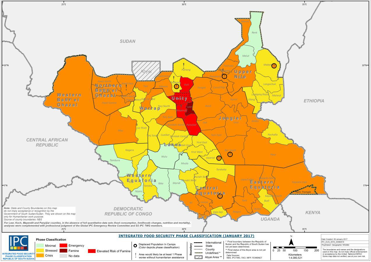 South Sudan map with the phase classification from 1 to 5 (minimal, stressed, crisis, emergency, famine). A famine has formally been declared in Unity State. Additional maps from this report predict spreading famine throughout nearby areas of South Sudan